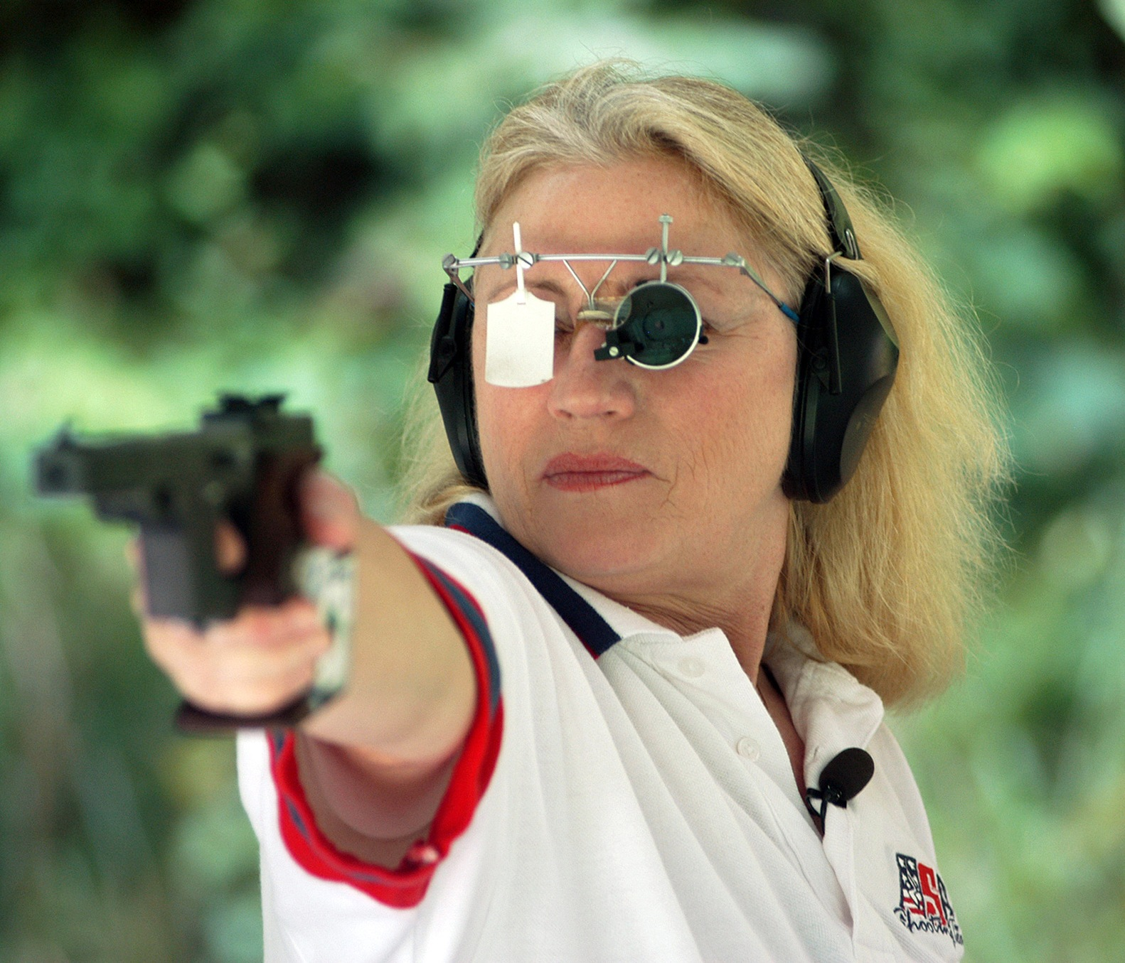 Elizabeth Callahan competes in her fourth Olympics in the women's 25-meter sport pistol event during the 2008 Olympic Games in Beijing, China, on August 13th, 2008. The competitor wears shooting glasses as a visual aid. Though the glasses are extremely customizable, most pairs contain three basic elements: a lens, a mechanical iris, and blinders. These components work together to help shooters focus on both the faraway target and their gun's sights at the same time.